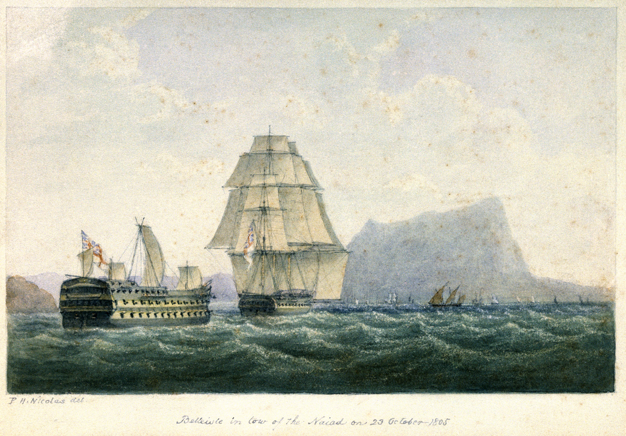 HMS Naiad towing HMS Belleisle towards Gibraltar, after the Belleisle had been damaged and dismasted at the Battle of Trafalgar two days previously.